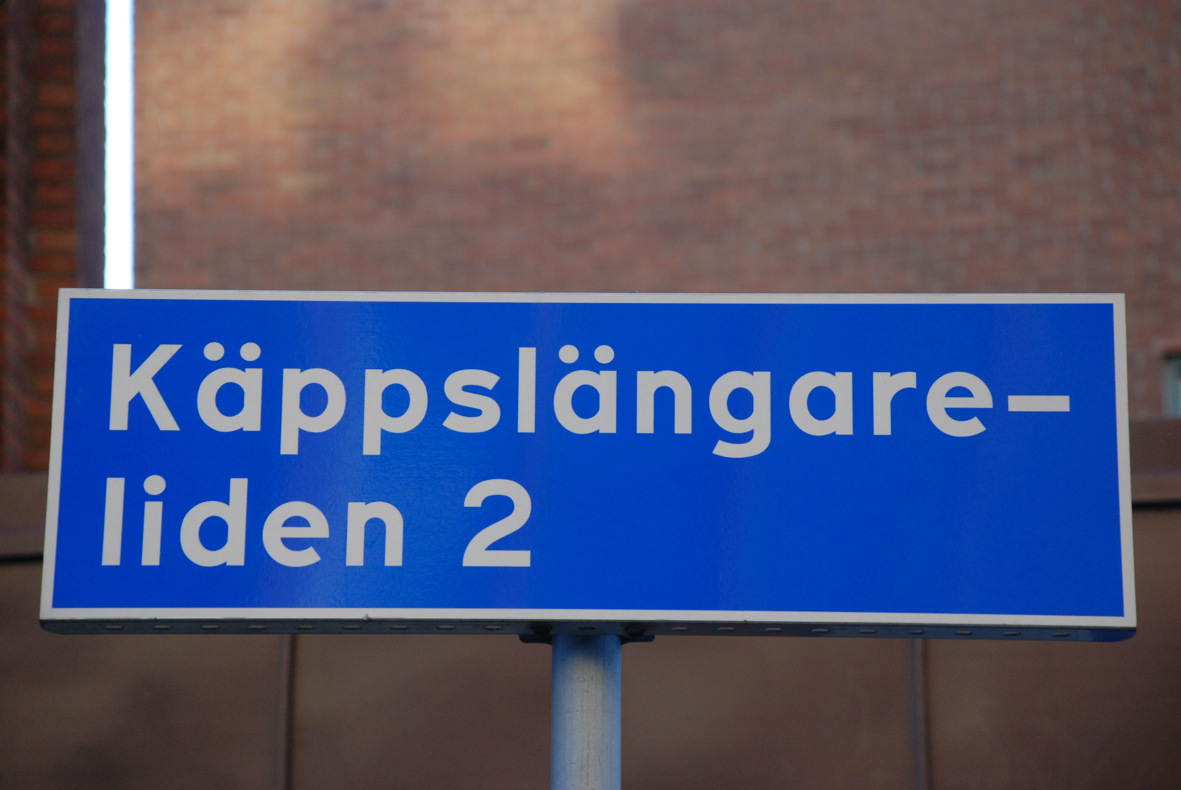 Street sign Käppslängareliden at Otterhällegatan in Göteborg.